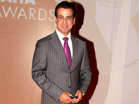 Ronit Roy at Sahara IPL Awards